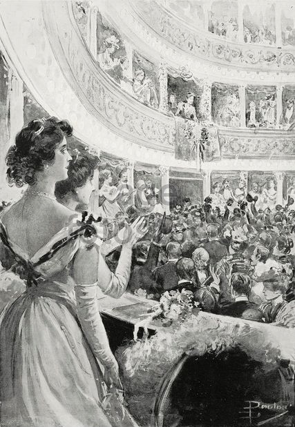 Festa all'attrice Adelaide Ristori al Teatro Valle (Roma), Rome 1902, original: 23 x 34 cm, from a 1902 magazine